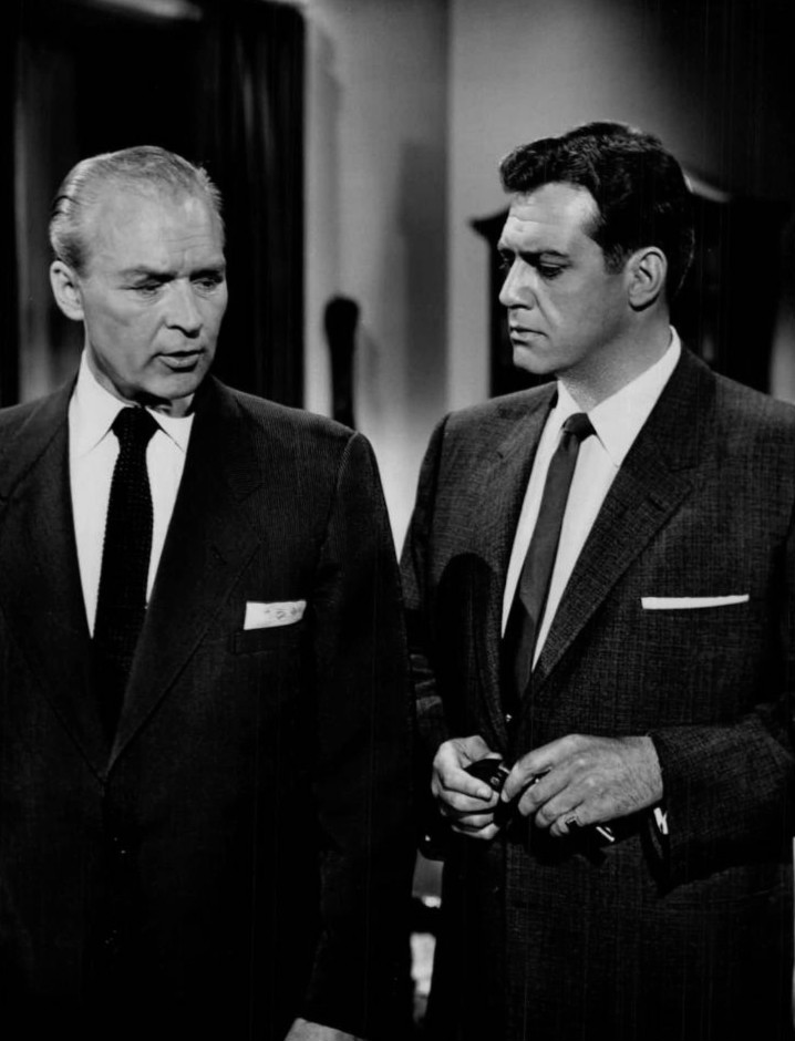 Photo of Raymond Burr as Perry Mason and Ralph Clanton from the television program Perry Mason. This photo is from the premiere episode of the show "The Case of the Restless Redhead", in 1957.